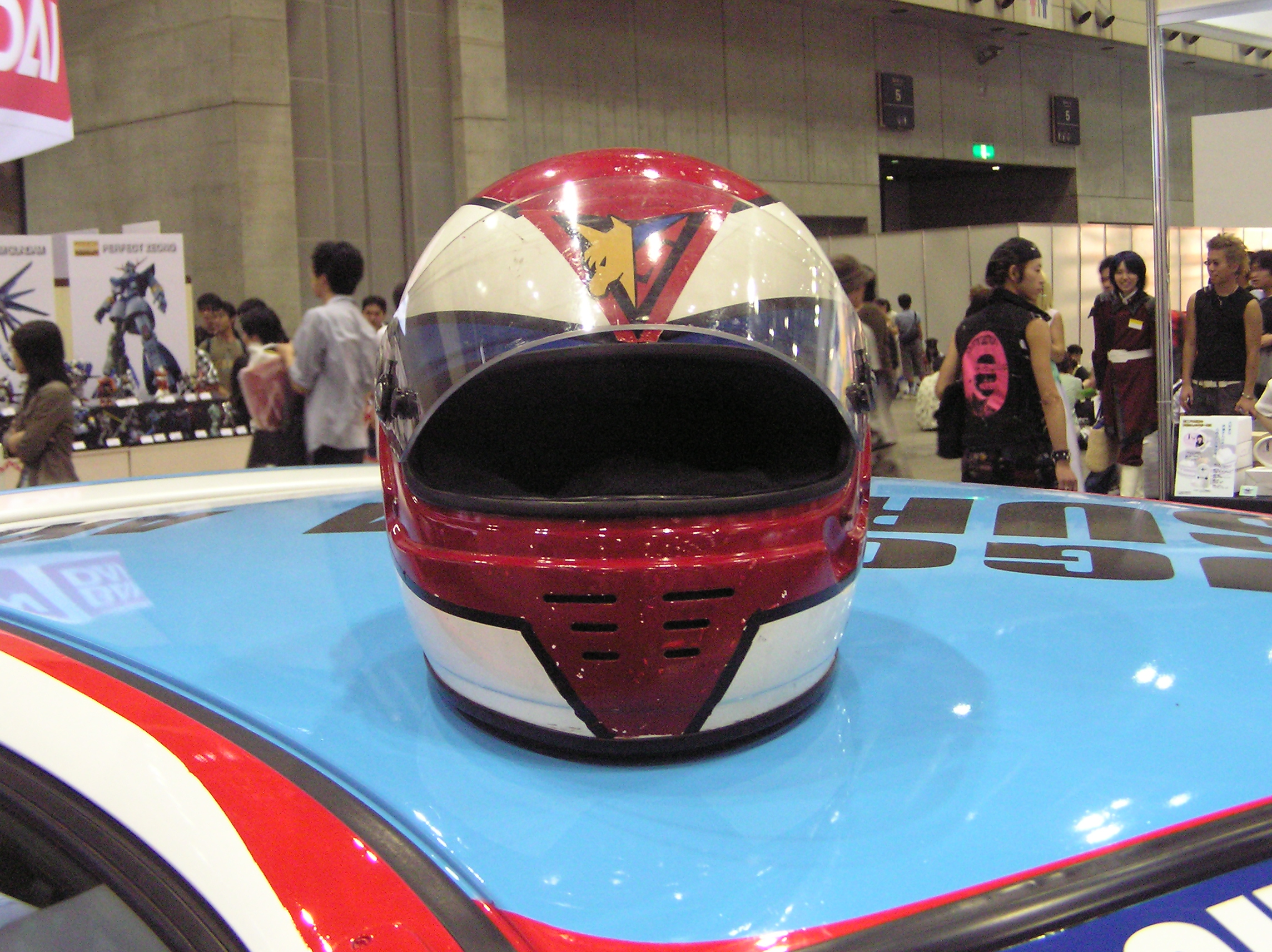 The replica helmet of Kazami Hayato in Cyber Formula. Made by Getwin.